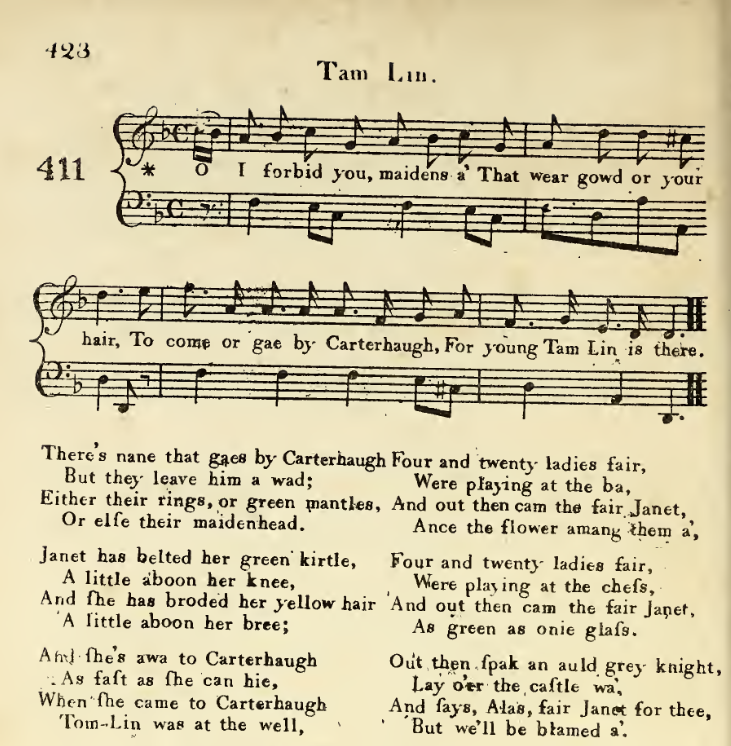 Part of the ballad Tam Lin. Screenshot of half of page 423 from Collection of Scottish folk songs, primarily in the Scots language. Edited by Robert Burns. Volume 5.